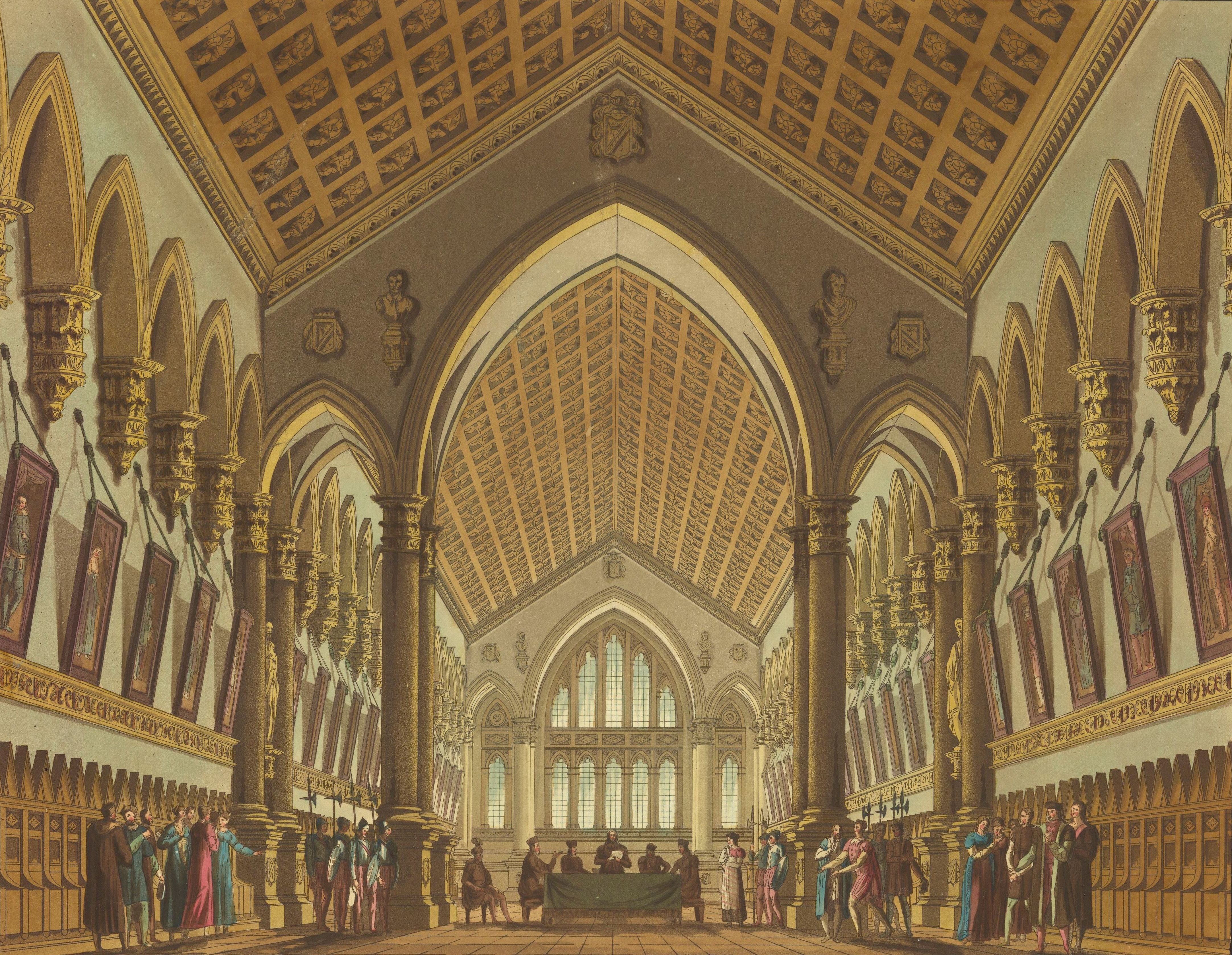 Opera La Gazza ladra (The Thieving Magpie) by Gioachino Rossini. Set design for the courtroom in act 2, Scene 9, for the premiere in Milan, Teatro alla Scala, May 31, 1817. Coloured aquatint by Angelo Biasioli after a drawing by set designer Alessandro Sanquirico.